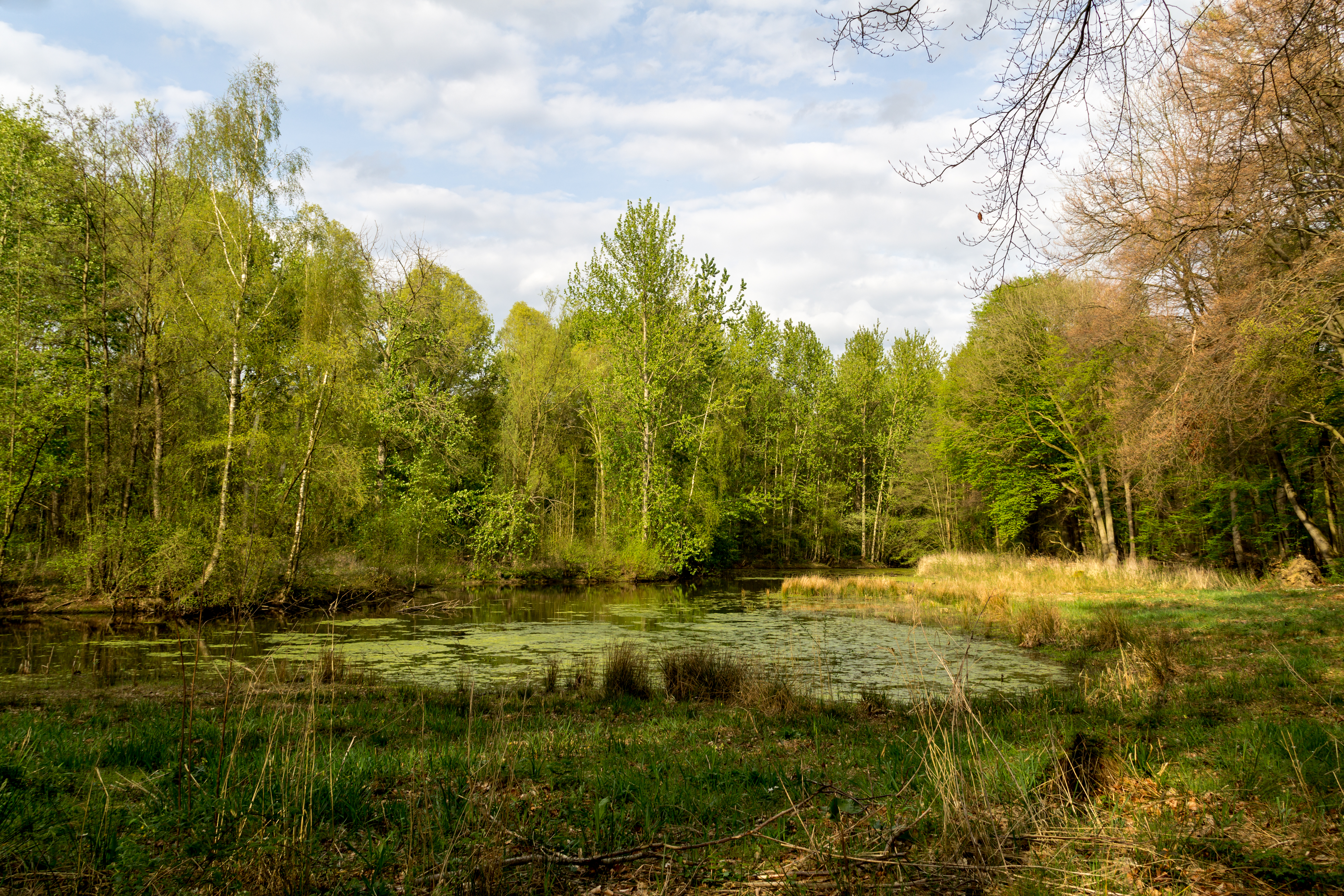 Natural forest “Teppes Viertel” in the Wolbecker Tiergarten in Wolbeck, Münster, North Rhine-Westphalia, Germany